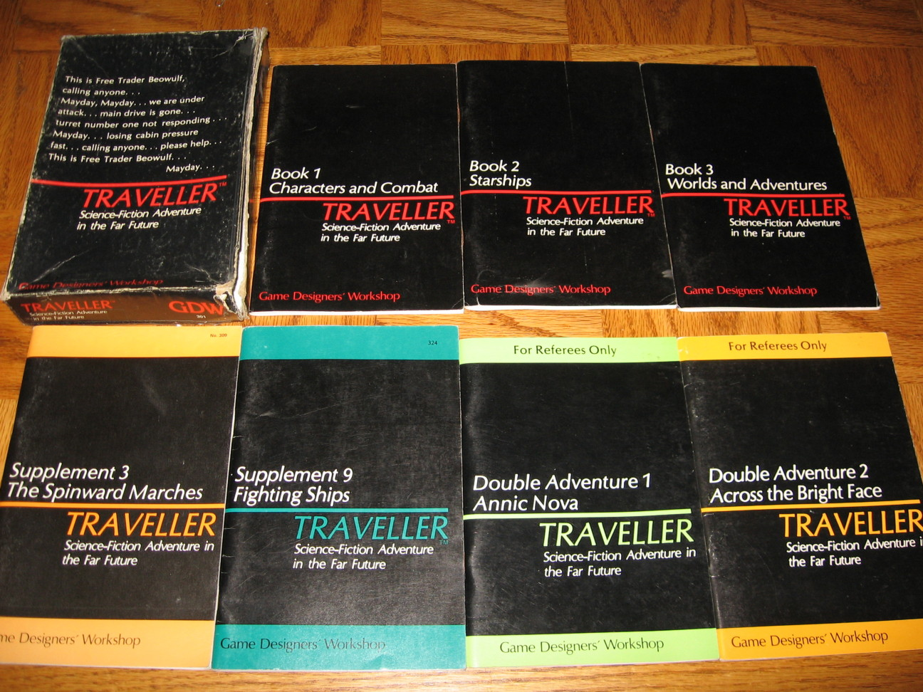 Well-worn box, game rules and supplemental books for the pen-and-paper role playing game Traveller.